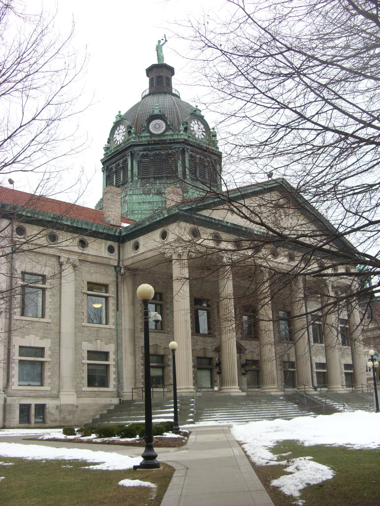 Broome County Courthouse — in Binghamton, Broome County, New York.